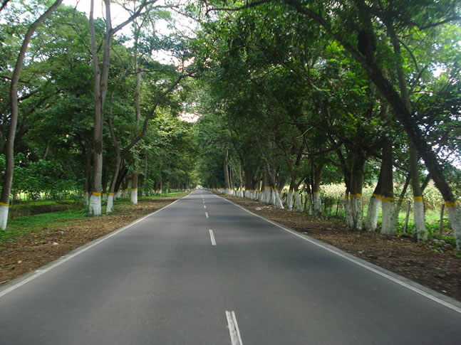 obispos